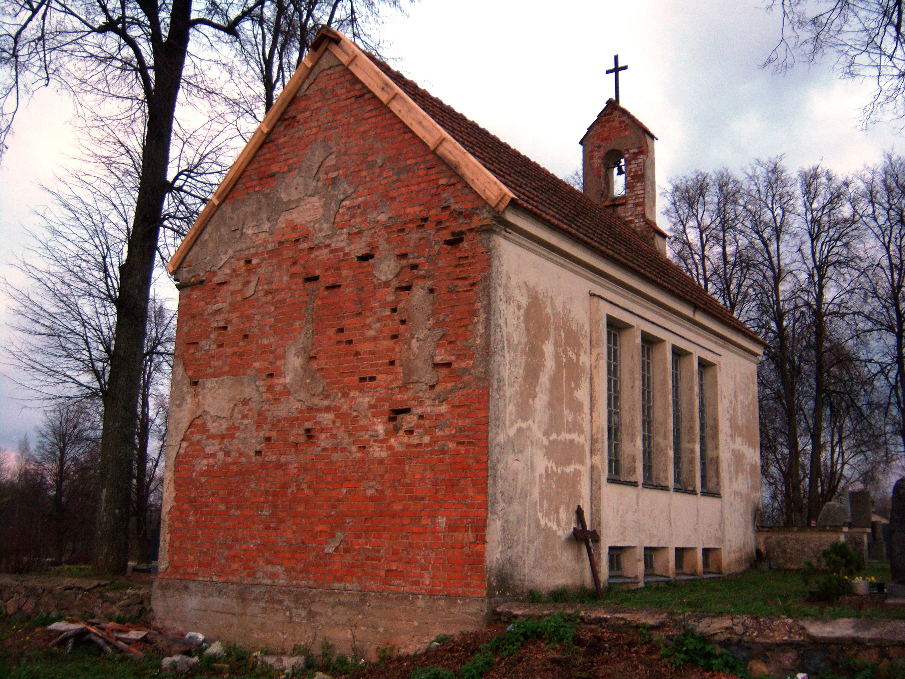 Umėnai cemetery chapel, Anykščiai District, Lithuania